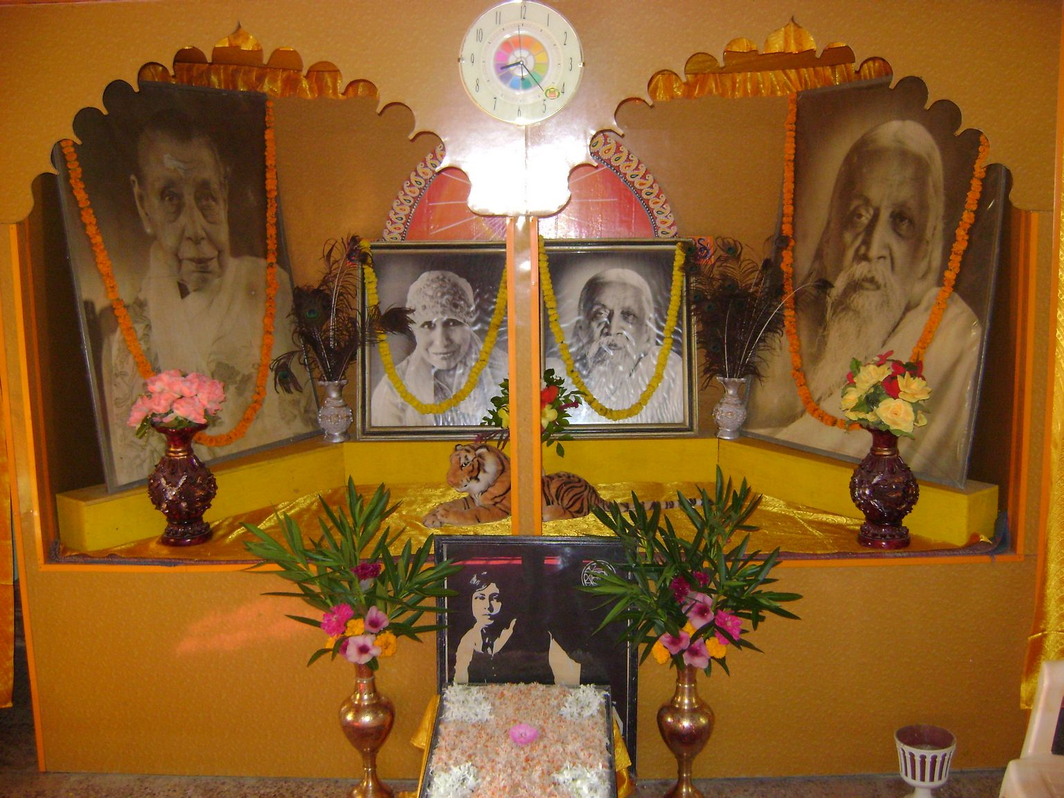 Meditation Hall